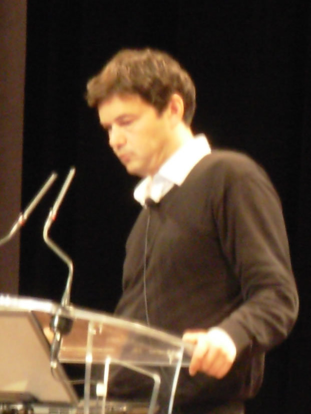 Thomas Piketty, French economist, during the conference